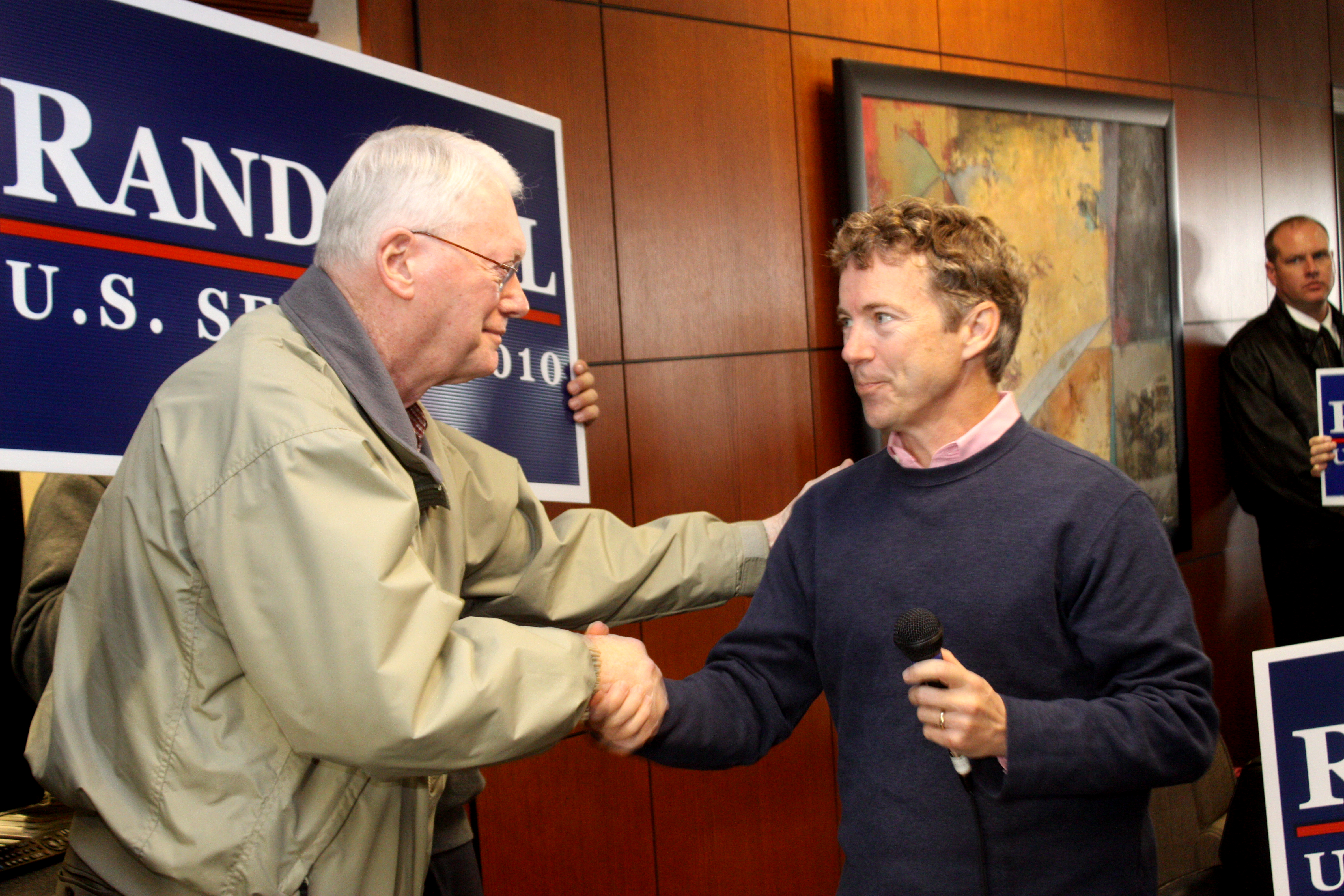 Then-United States Senate candidate Rand Paul with then-Senator Jim Bunning, at a town hall meeting in Hebron, Kentucky.